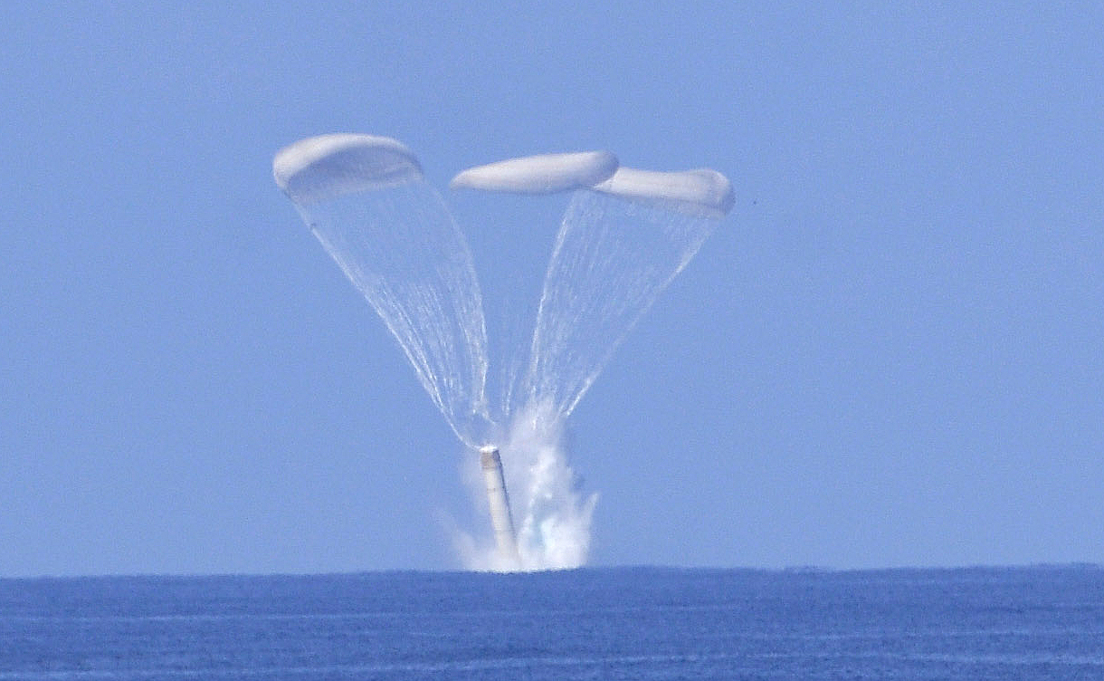 Splashdown of the right hand SRB from mission STS-124. SRB config BI134. Original NASA description: The space shuttle twin solid rocket boosters separate from the orbiter and external tank at an altitude of approximately 24 miles. They descend on parachutes and land in the Atlantic Ocean off the Florida coast, where they are recovered by ships, returned to land, and refurbished for reuse. These images show a typical descent phase and parachute deployment events of the boosters after separation from the tank and orbiter during a shuttle launch.